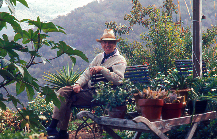 Tony Duquette (1914 - 1999) — artist, designer, and creative individual. At his ranch in the western Santa Monica Mountains off Deer Creek Road. photo by Tim Street Porter.